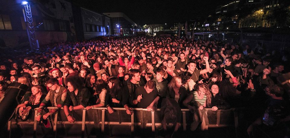 Publiek aan de mainstage